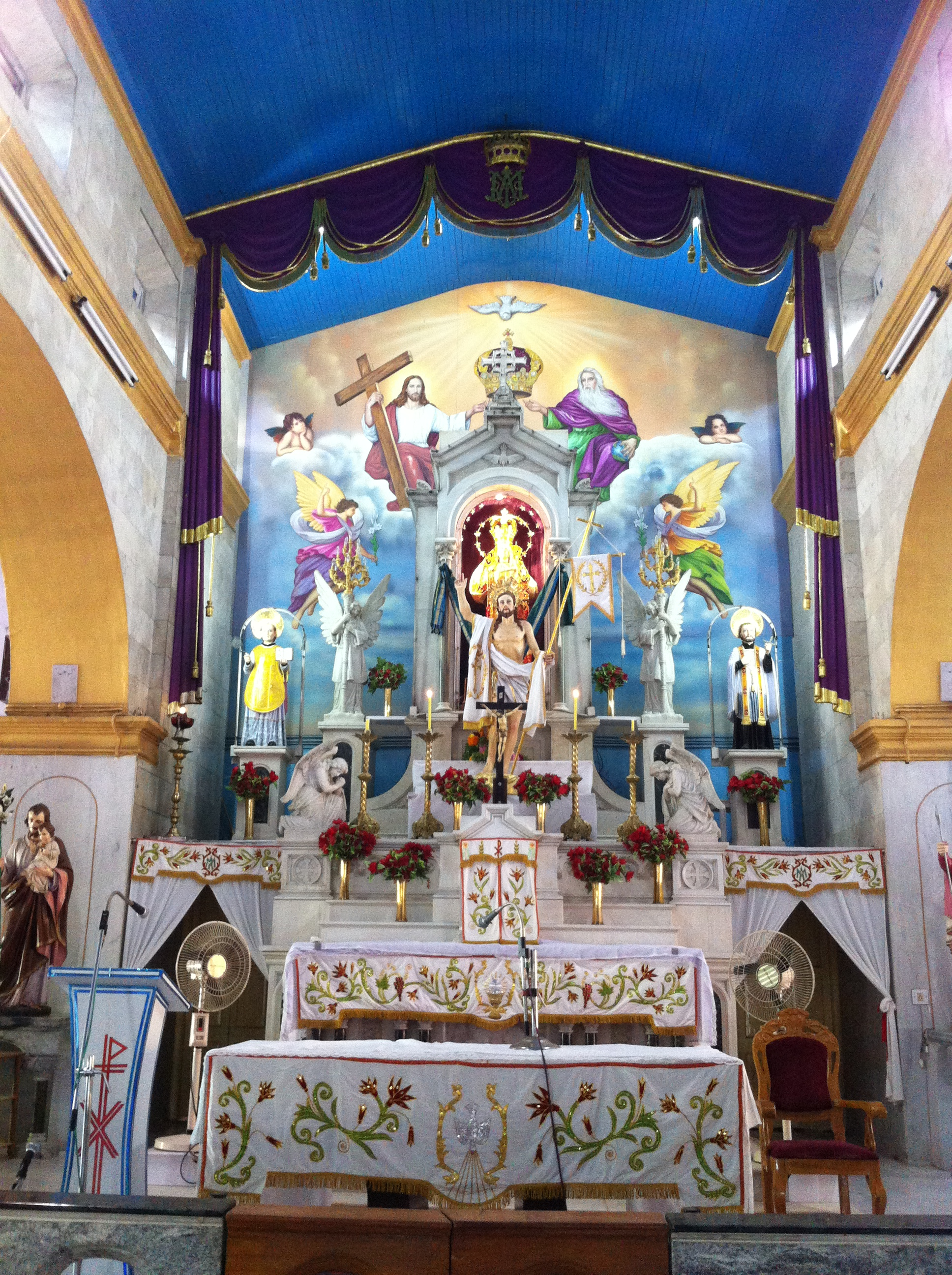 Altar Our Lady Of Snows Church, Tuticorin, Tamil Nadu, India